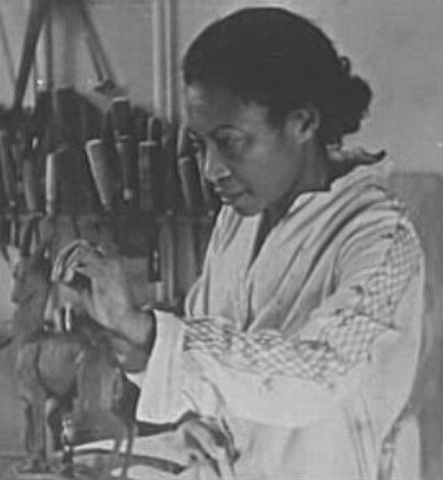 Augusta Savage at work in her studio in Harlem in the 1920s/1930s.